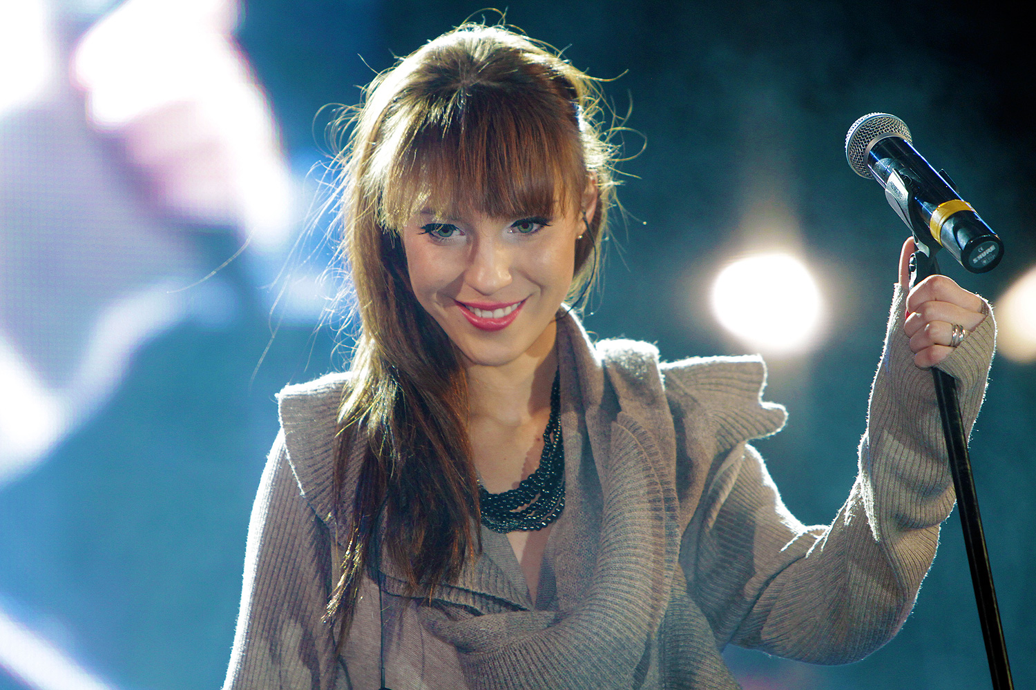 Singer Justė Starinskaitė